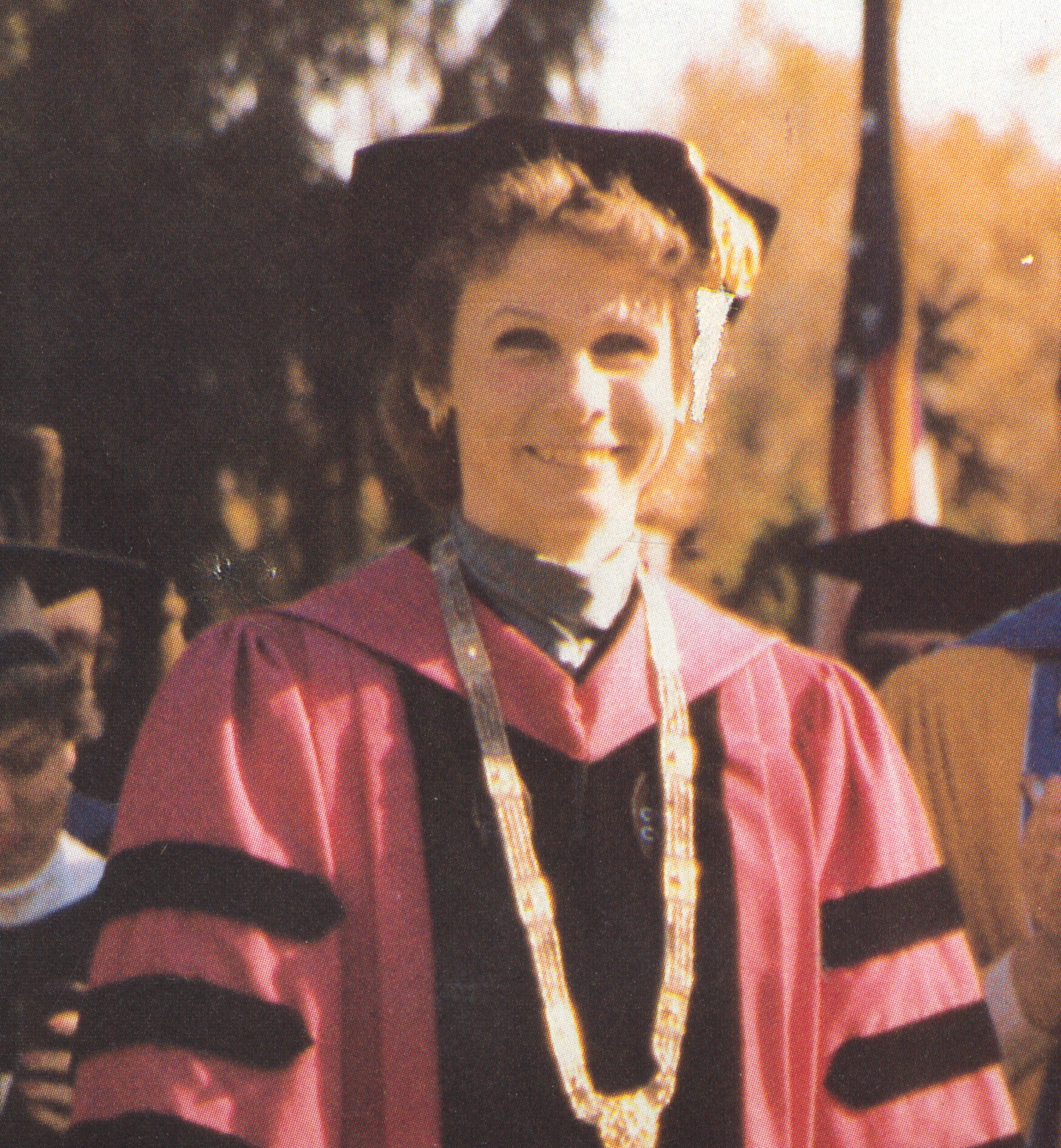 9th president of Vassar College in the town of Poughkeepsie, New York, US, Frances D. Fergusson shortly before her retirement. Picture likely taken in 1986.